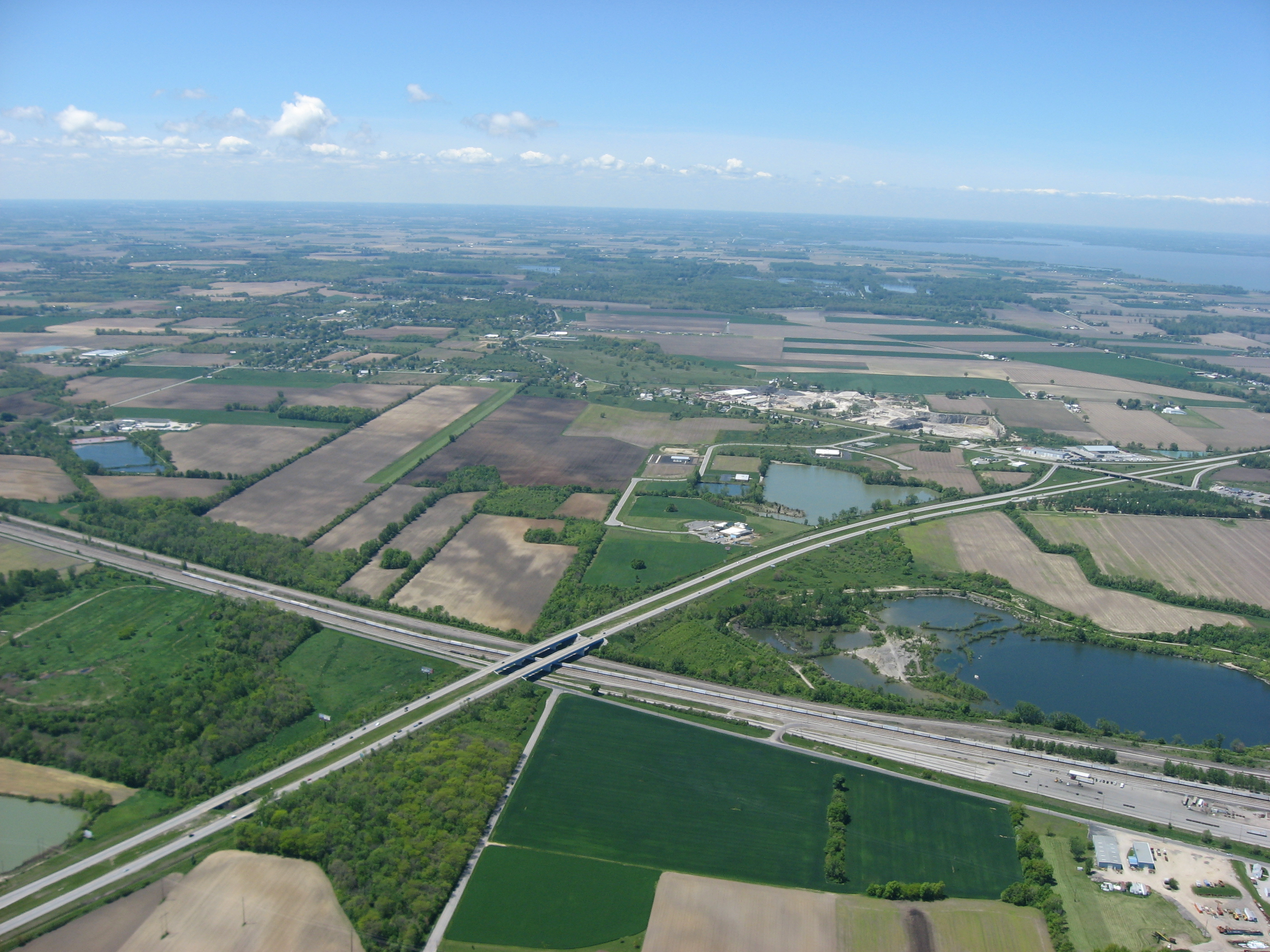 Aerial view of countryside in northwestern Erie County, Ohio, United States, south of Sandusky: Perkins Township in the foreground, and Margaretta Township in the background. Overpass in the foreground is on the right side is State Route 2 over a major railroad line between Sandusky and Bellevue. Picture taken from a Diamond Eclipse light airplane at an altitude of 2,500 feet MSL and a bearing of approximately 260º.